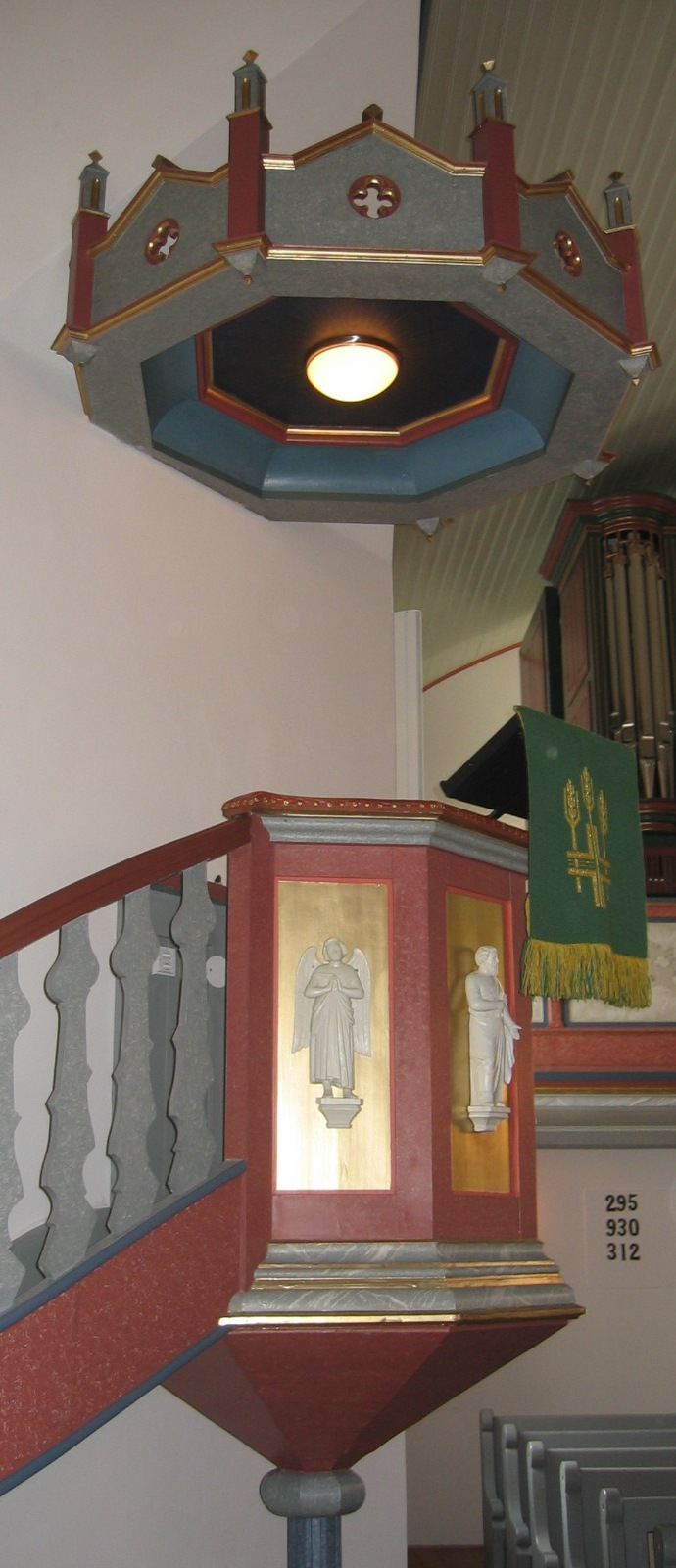 Pulpit of Brønnøy kirke, Norway